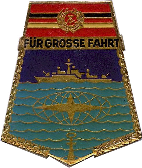 Image of the People's Navy (Volksmarine) Badge for Long Voyage (German: Abzeichen für Große Fahrt) a non-state award of the National People's Army (NVA) awarded by the German Democratic Republic (GDR).